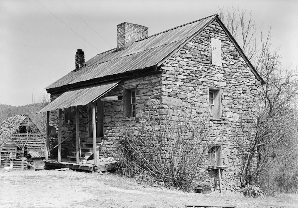 Oconee Station State Historic Site blockhouse. Old Fort of Indian Trading Station.